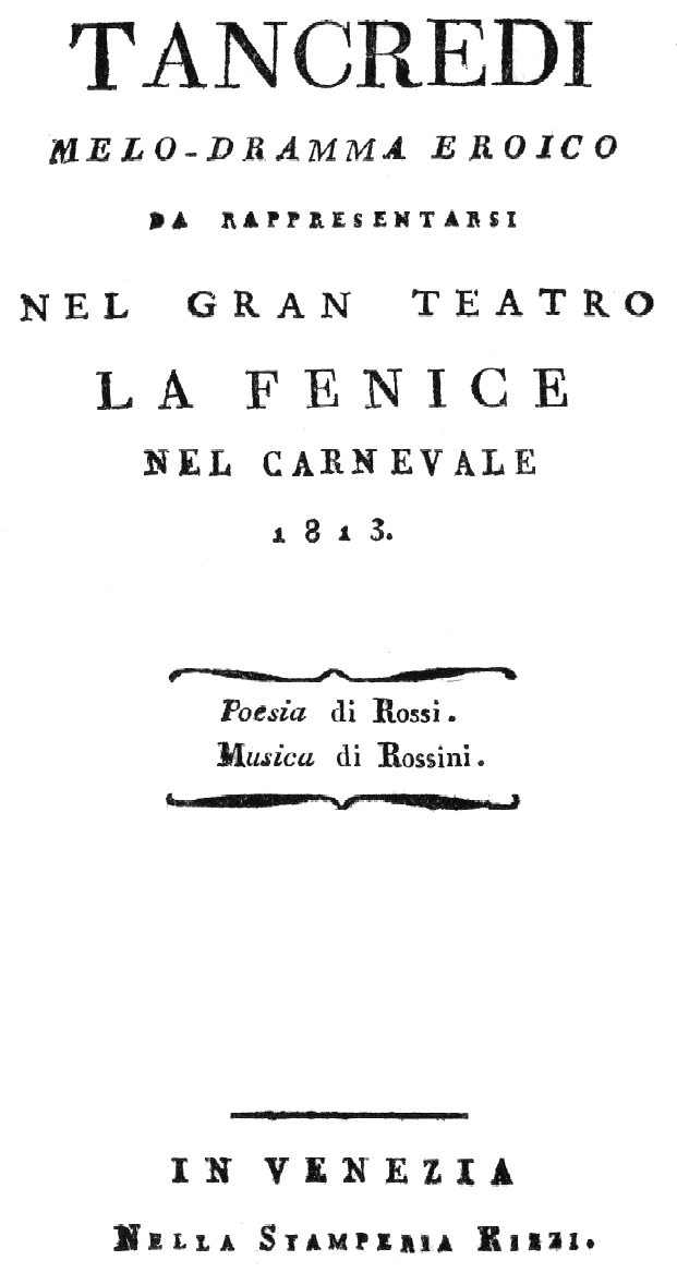 Gioachino Rossini - Tancredi - titlepage of the libretto - Venice 1813